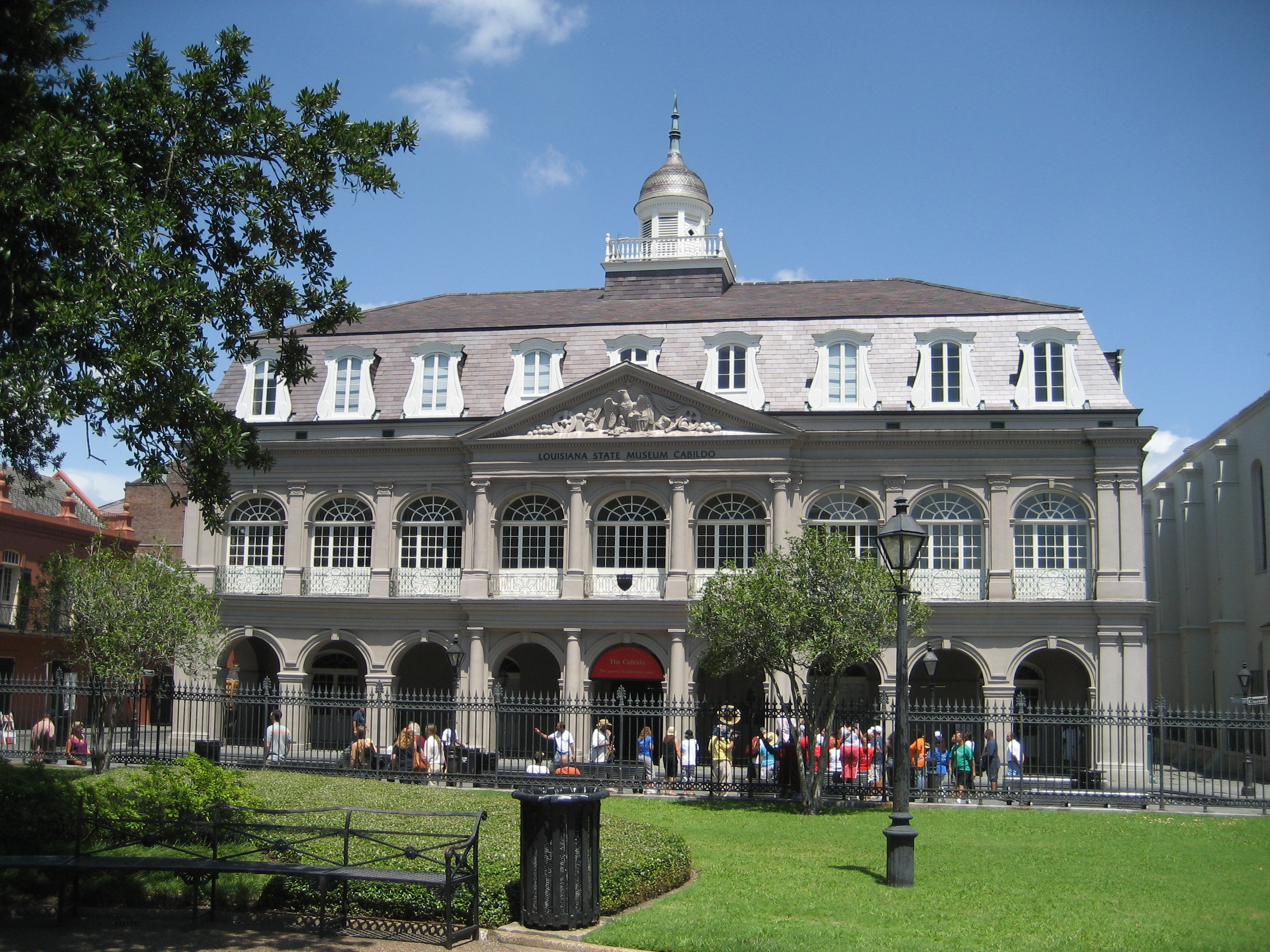 New Orleans: Front of the Cabildo on Jackson Square